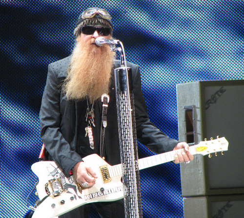 Photo by Kasra Ganjavi that was in Charolett SC